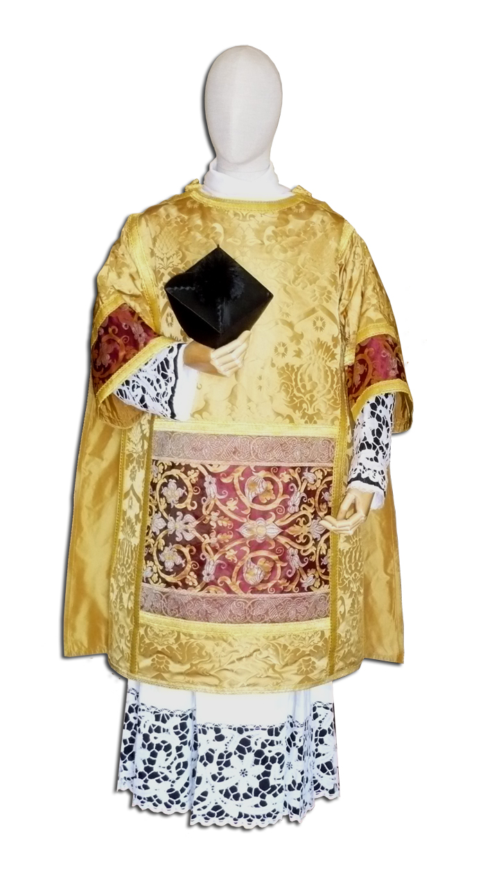 Dalmatic